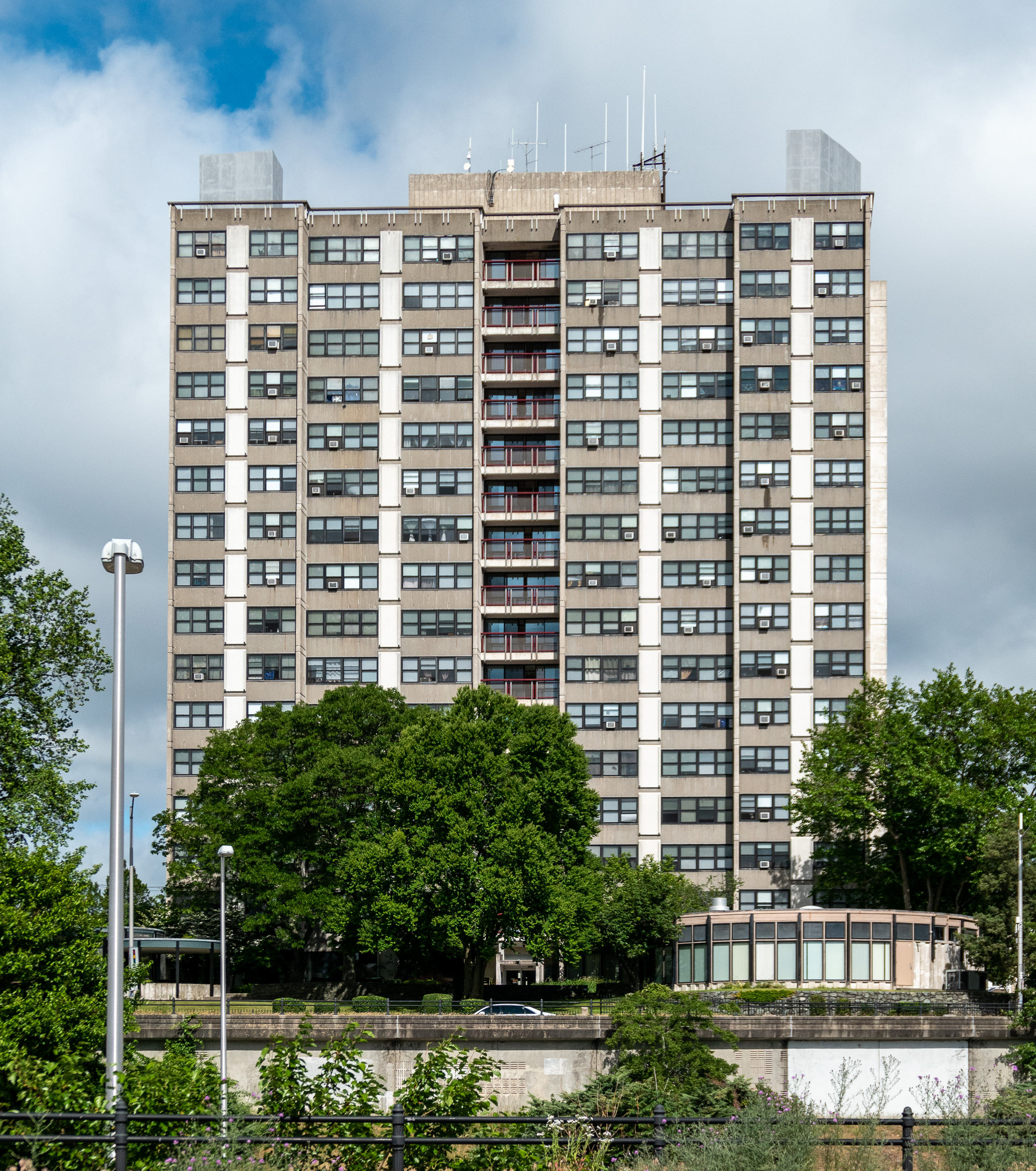 Dominica Manor is an elderly-only public housing development located in the Federal Hill neighborhood of Providence on Atwells Avenue.